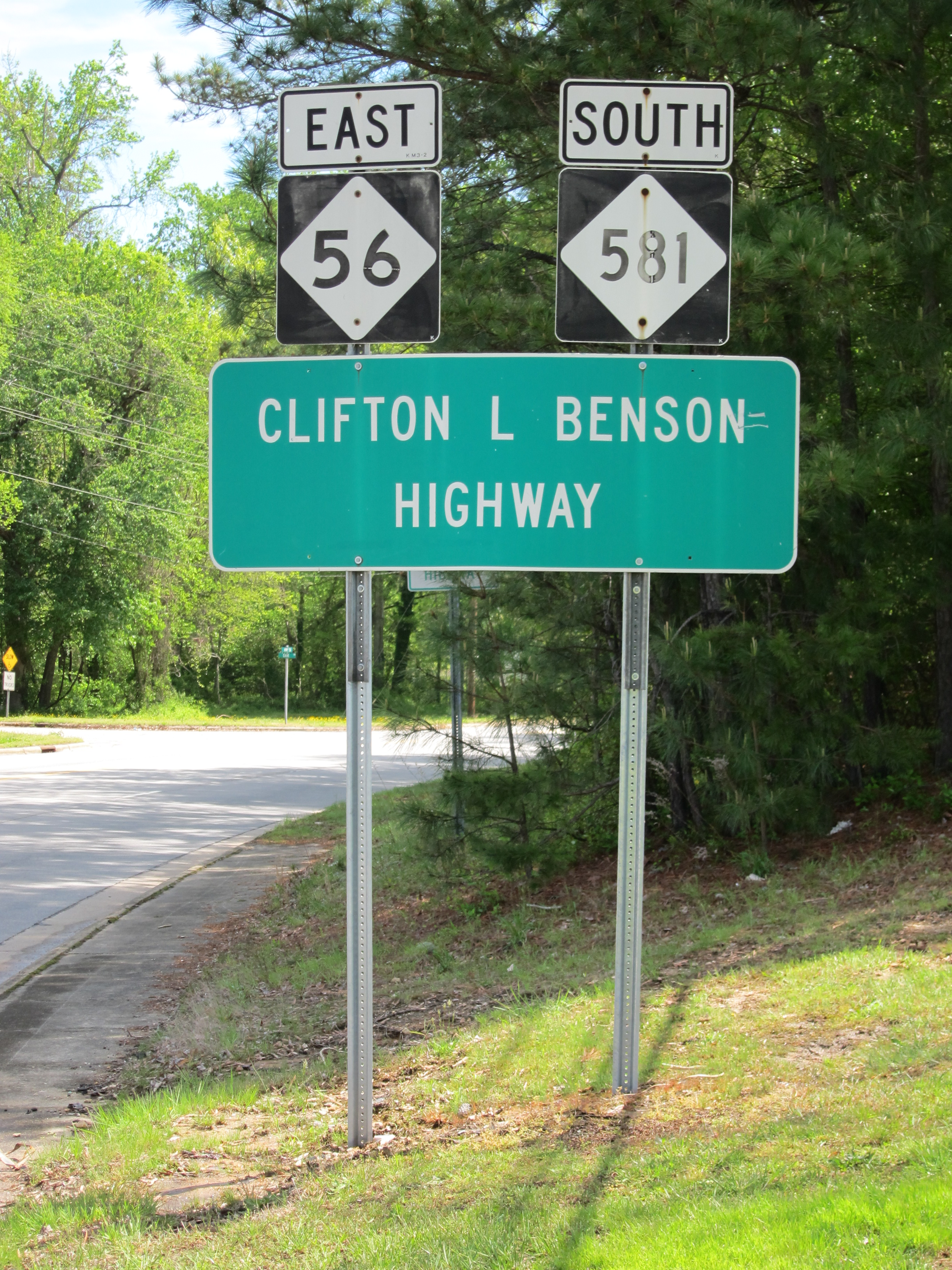 The Clifton L Benson Highway was dedicated on December 7, 1972. This also the first sign of NC 581 south, located in Louisburg, North Carolina.